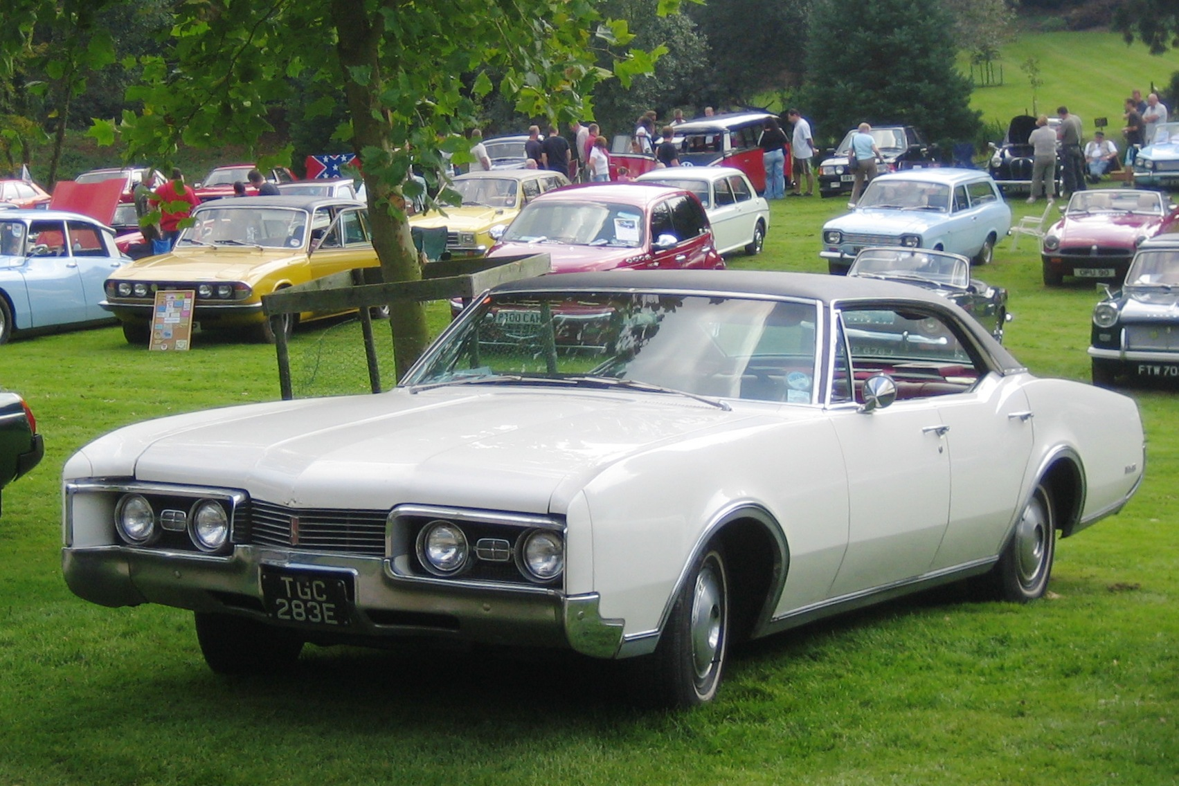 Oldsmobile Delta 88 four-door hardtop sedan Tax office data (presumably) as declared on importation to UK: Date of first registration in UK: October 1996 Year of manufacture: 1967 Cylinder capacity: 5736 cc Not taxed for UK road use since August 2013